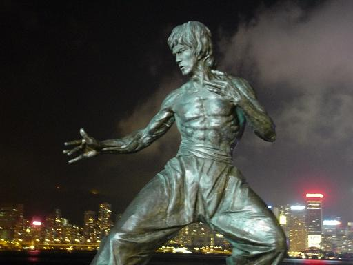 The Bruce Lee statue in Hong Kong is a memorial figure of deceased martial artist, Bruce Lee. The 2.5 metre bronze statue by artist Cao Chong-en was erected along the Avenue of Stars attraction near the waterfront at Tsim Sha Tsui.